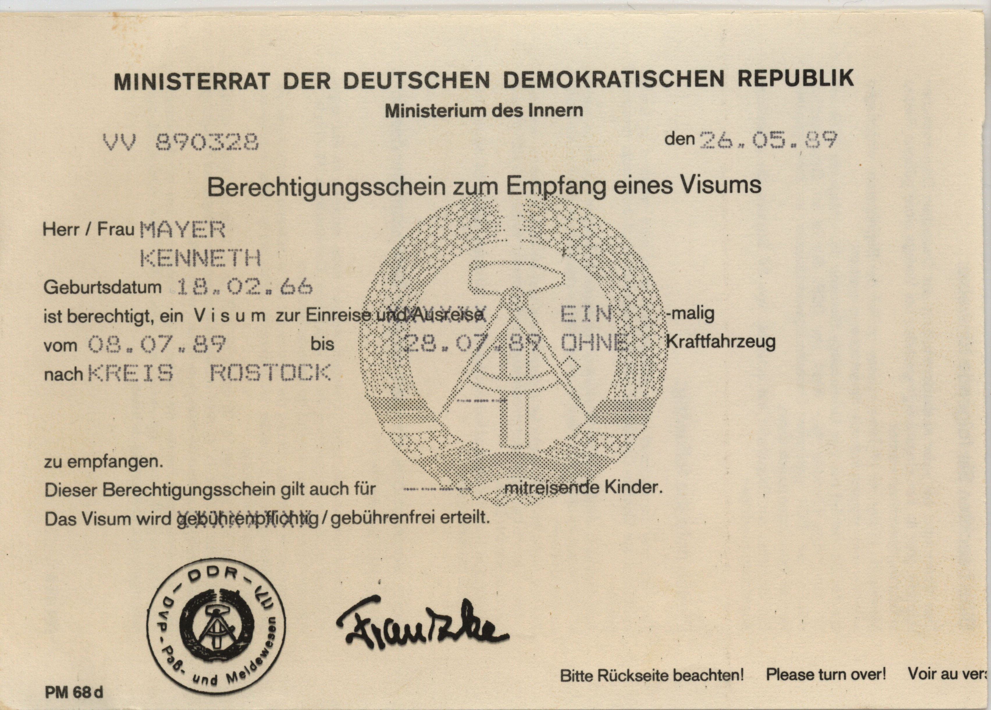 East German entry visa, incorrectly dated to July 1989 but actually from 1988